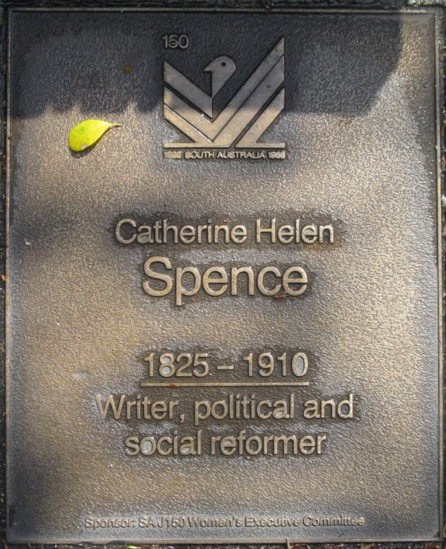 Jubilee 150 Walkway Plaque commemorating xx